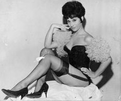 Dorita Burgos-actriz y vedette